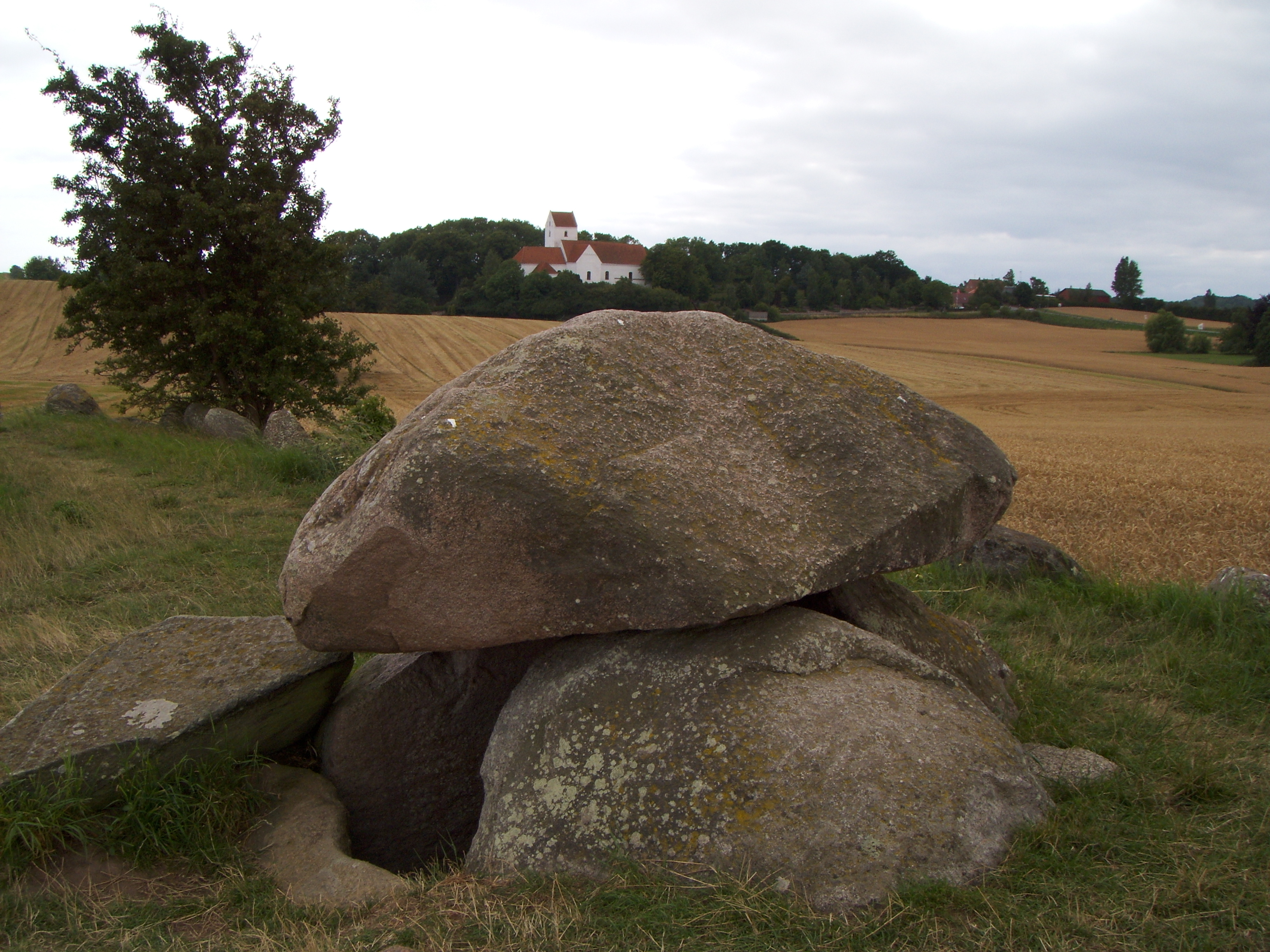 Humble Church, Diocese of Fyn, Denmark and "King Humbles barrow"